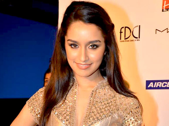 Shraddha Kapoor at Delhi Couture Week 2011.